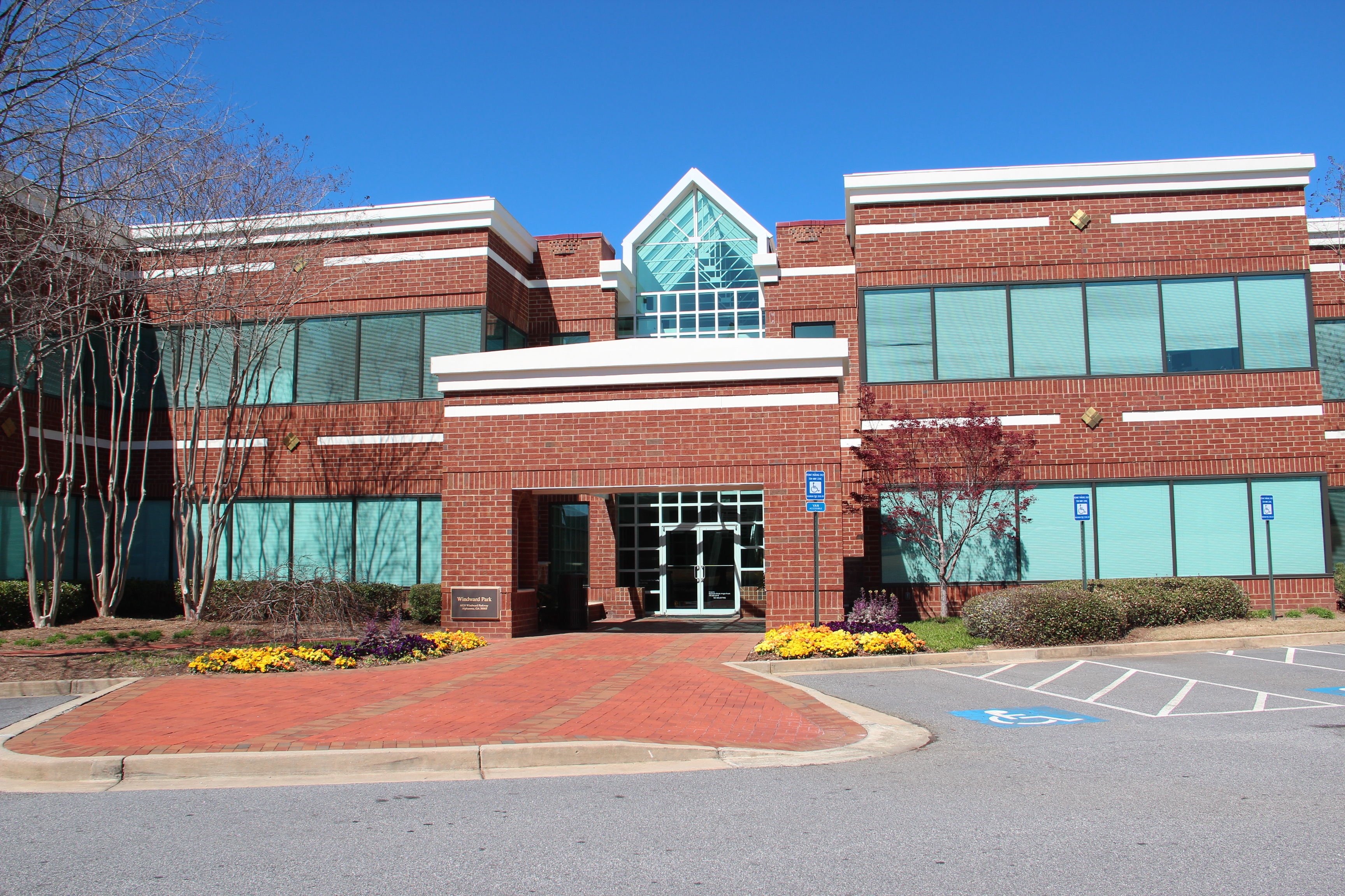 6120 Windward Pkwy, Alpharetta